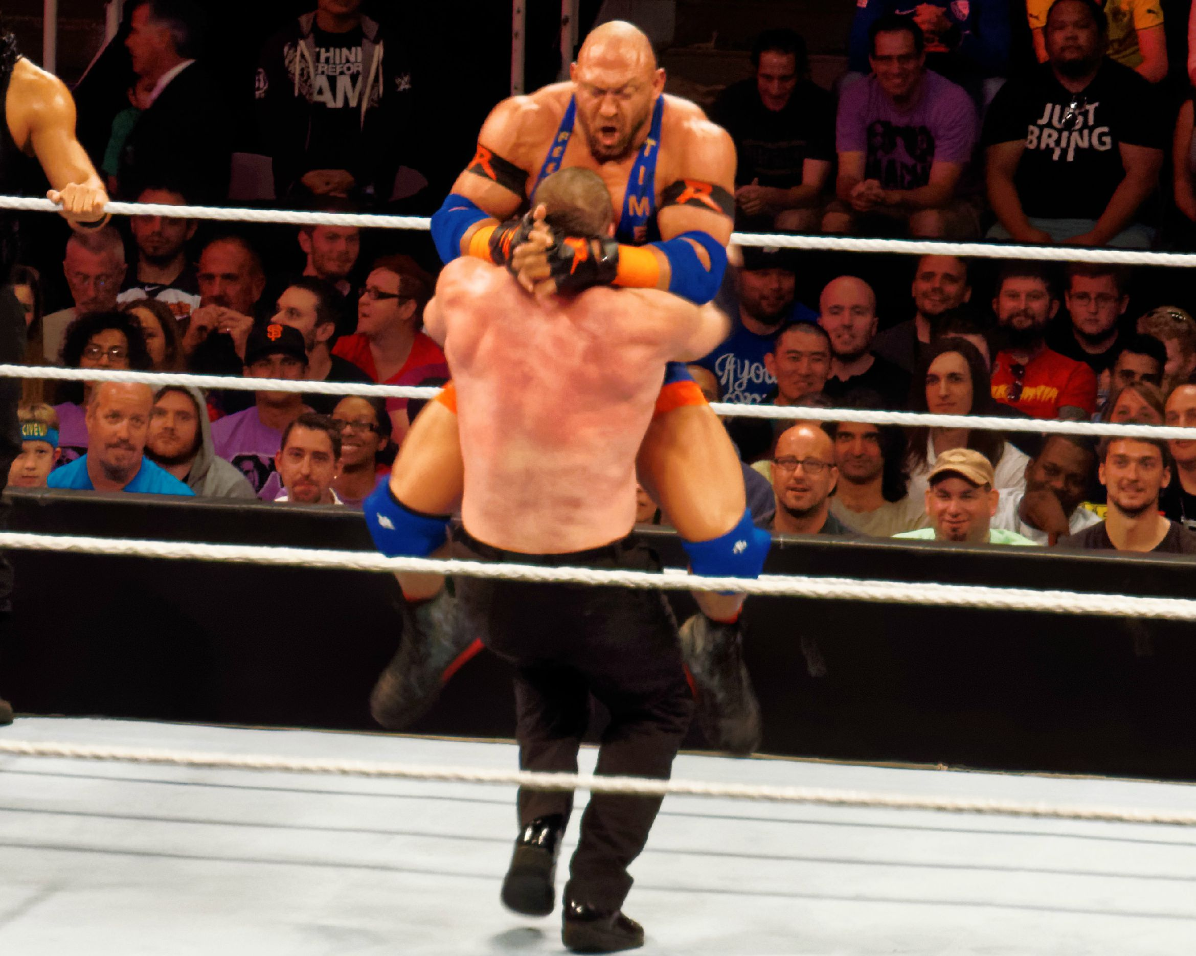 Ryback applying the Thesz Press on Kane.